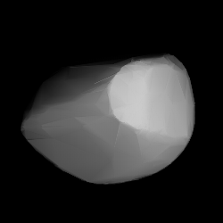 3D convex shape model of 1388 Aphrodite, computed using light curve inversion techniques. J. Hanuš, J. Ďurech, M. Brož, B. D. Warner (June 2011). "A study of asteroid pole-latitude distribution based on an extended set of shape models derived by the lightcurve inversion method". Astronomy and Astrophysics 530: A134. ISSN 0004-6361. arXiv